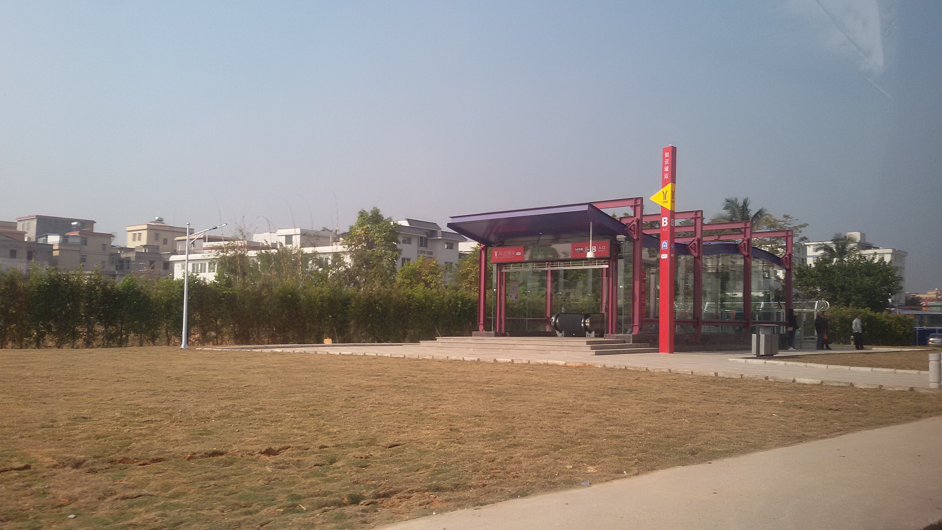 Exit B for Sino-Singapore Knowledge City Station in Guangzhou Metro.